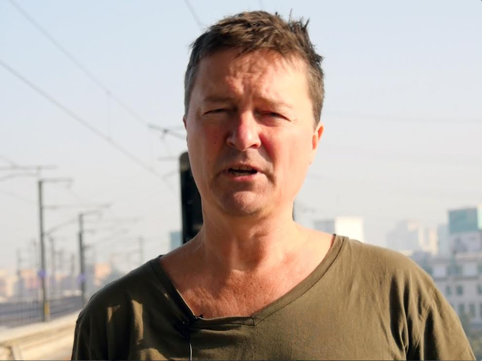 Henrik Valeur during his workshop with IIT Roorkee on Urban Dialogues with the case example of Gurgaon